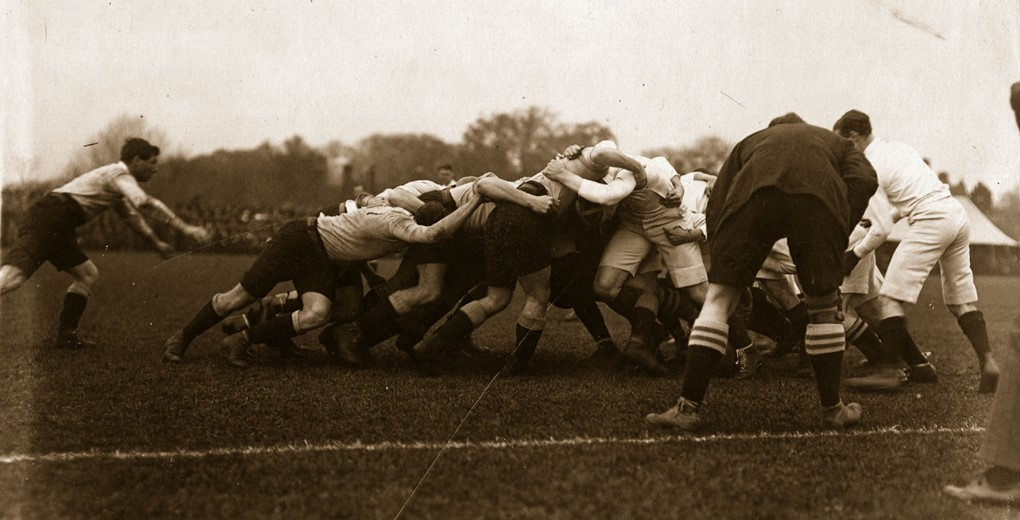 The first test, England v. Australia at Rectory Field.